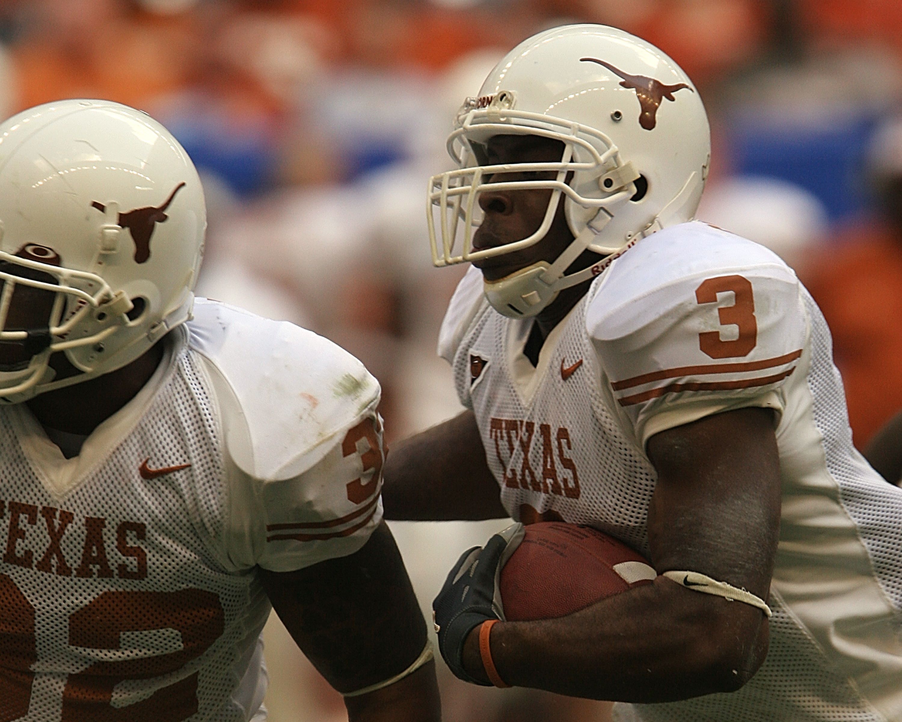 Chris Ogbonnaya, tailback for the Texas Longhorns, in the 2005 Big XII Championship game